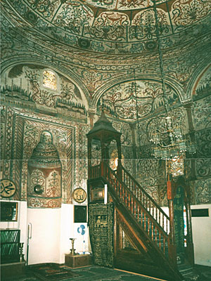 General info: Ethem Bey mosque in Tirana, Albania Size: 56.6 KB Dimension: 300x400 pixels Source: Bernard Cloutier used with permission License: GFDL This work is free and may be used by anyone for any purpose. If you wish to use this content, you do not need to request permission as long as you follow any licensing requirements mentioned on this page.